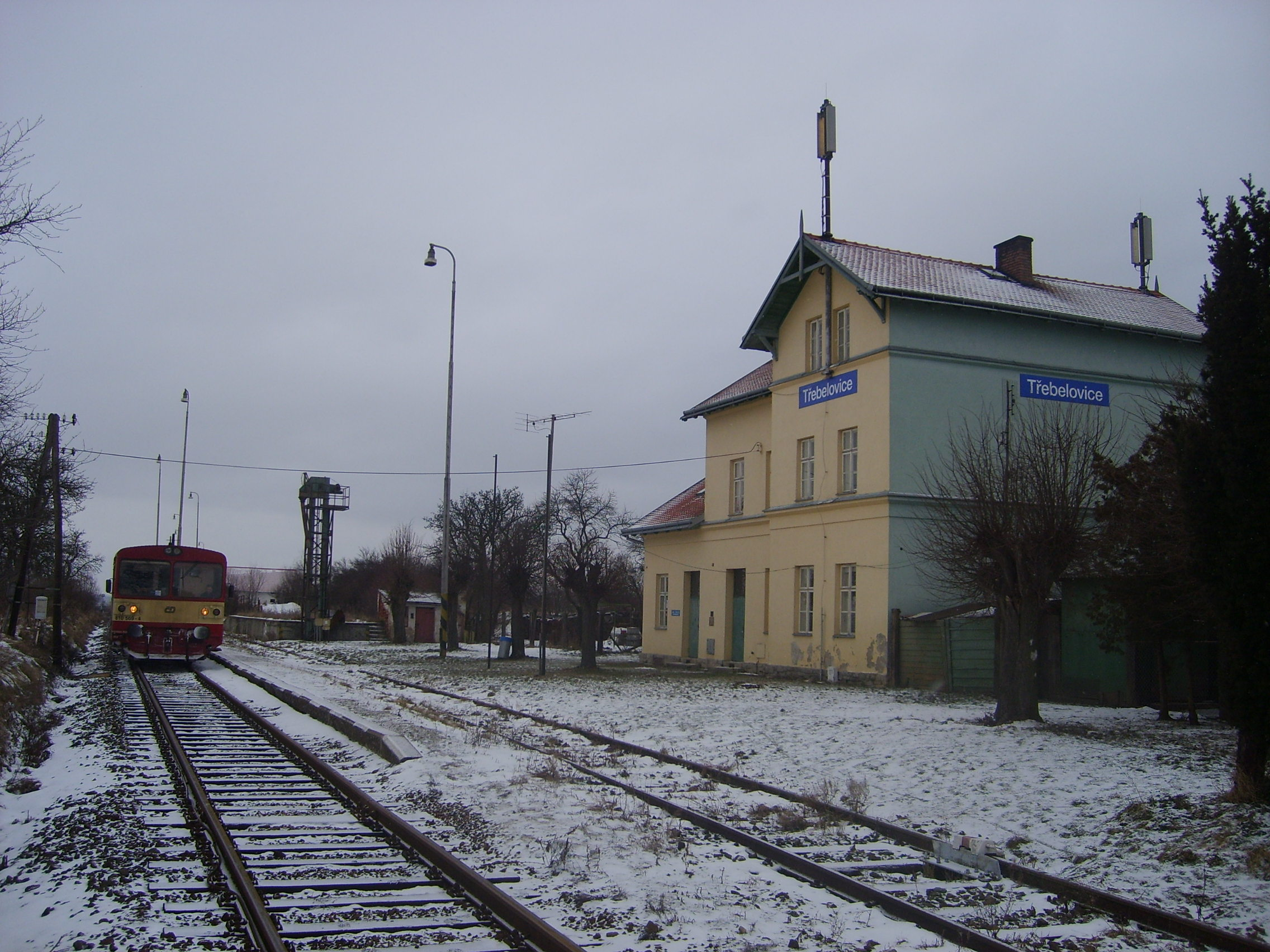 Train stop in Třebelovice, Czech Republic, on a secondary line from Moravské Budějovice to Jemnice, on one of the last days of operation (passenger trains are going to be suspended from 31 December 2010). Diesel railcar has serial nr. 810 569-4.